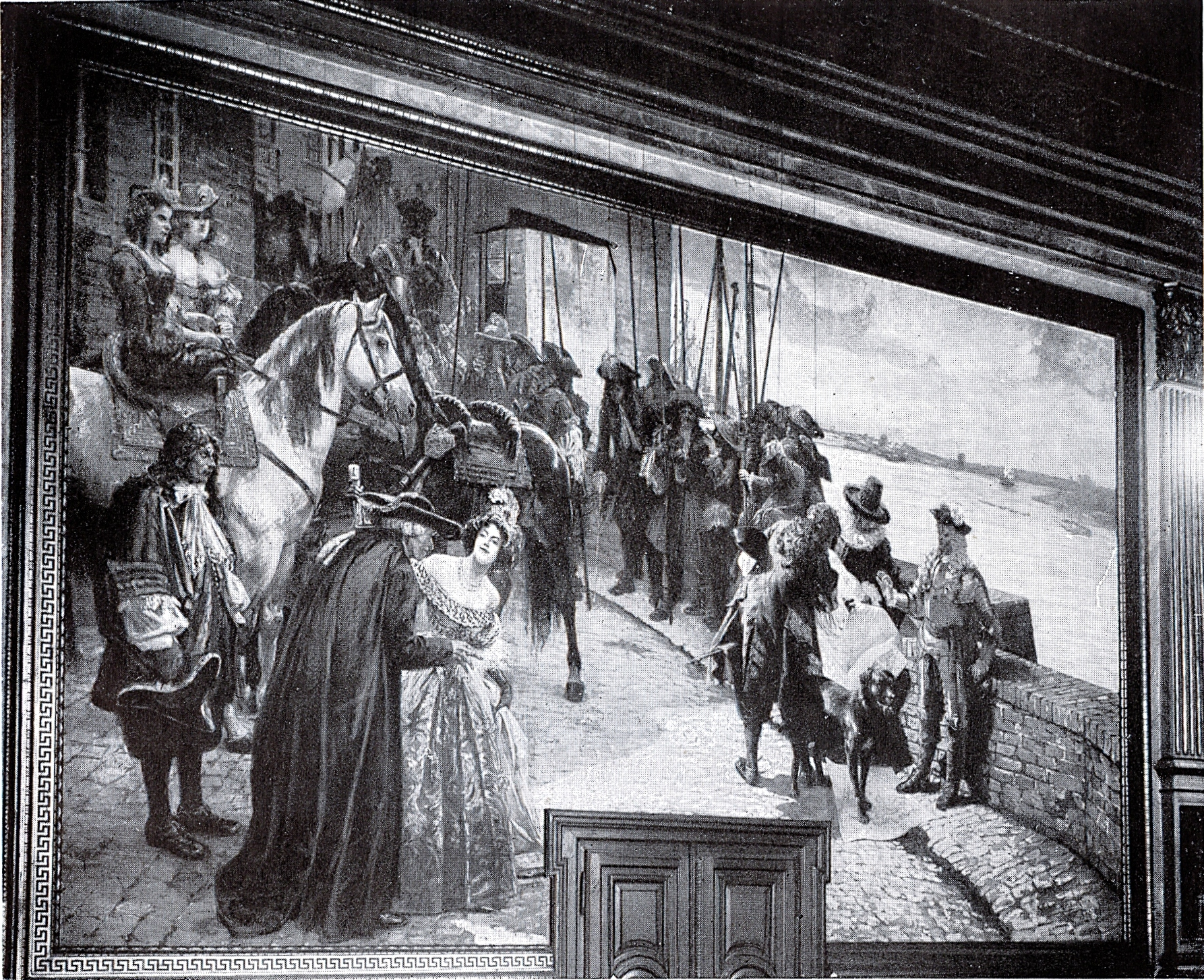 Friedrich Klein-Chevalier (1861-1931), Wandgemälde im Sitzungssaal des Neuen Rathauses Düsseldorf, Jan Wellem besichtigt die Päne zum Schloßbau in der Neustadt 1708.jpg